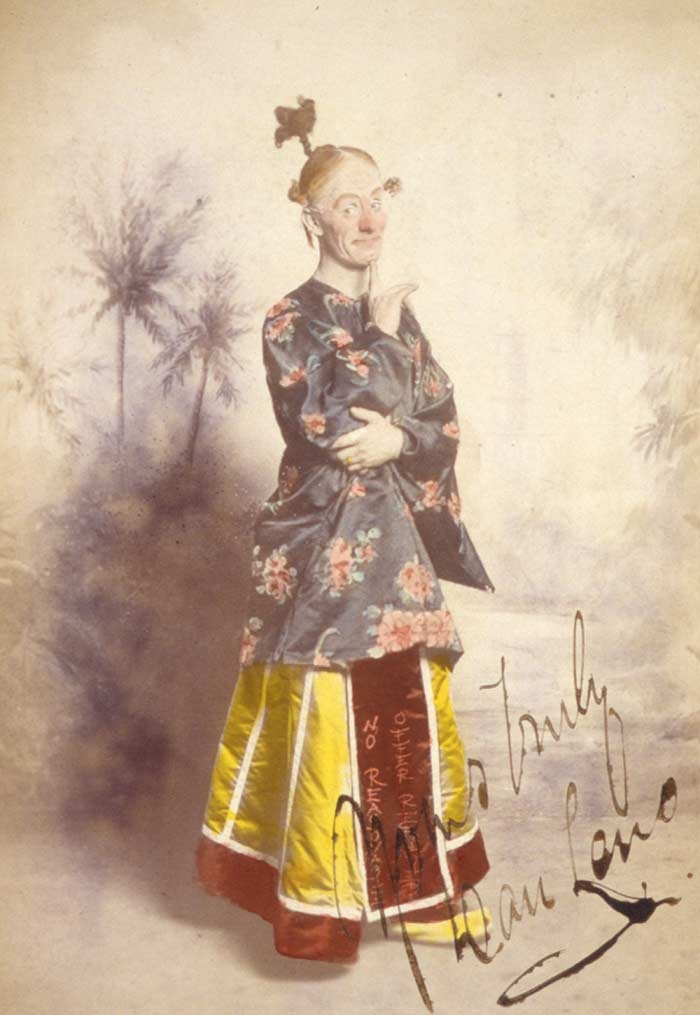 Hand coloured black and white photograph of 1896 by Alfred Ellis (Photographer). .